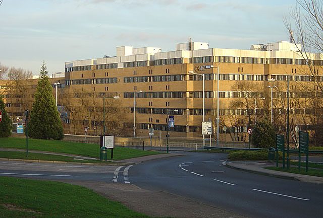 QMC (Queens Medical Centre). This is a major regional hospital built in the early 1970s. It was sited next to the University campus to enable the teaching hospital elements to be suitably integrated. This is the view from the corner of the University Park